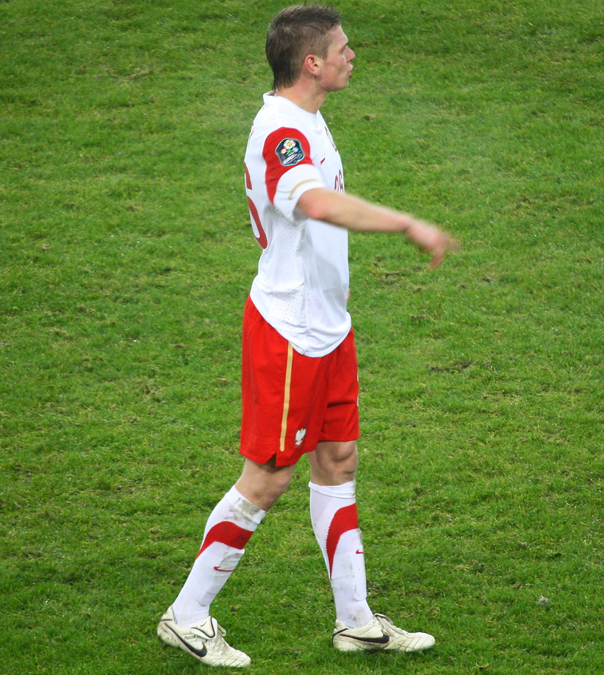 Lukasz Piszczek the Polish national team during the match and Côte d'Ivoire, Poznan, 17.11.2010.